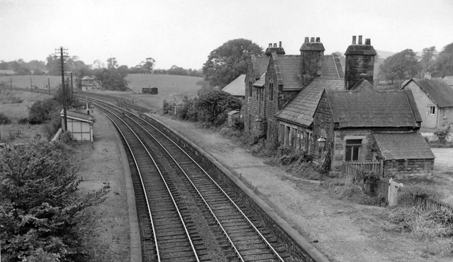 Borwick Station (converted?). View SW, towards Carnforth; ex-Furness & Midland Joint Wennington - Carnforth line; station closed 12/9/60, but the line is still open - for some reason.